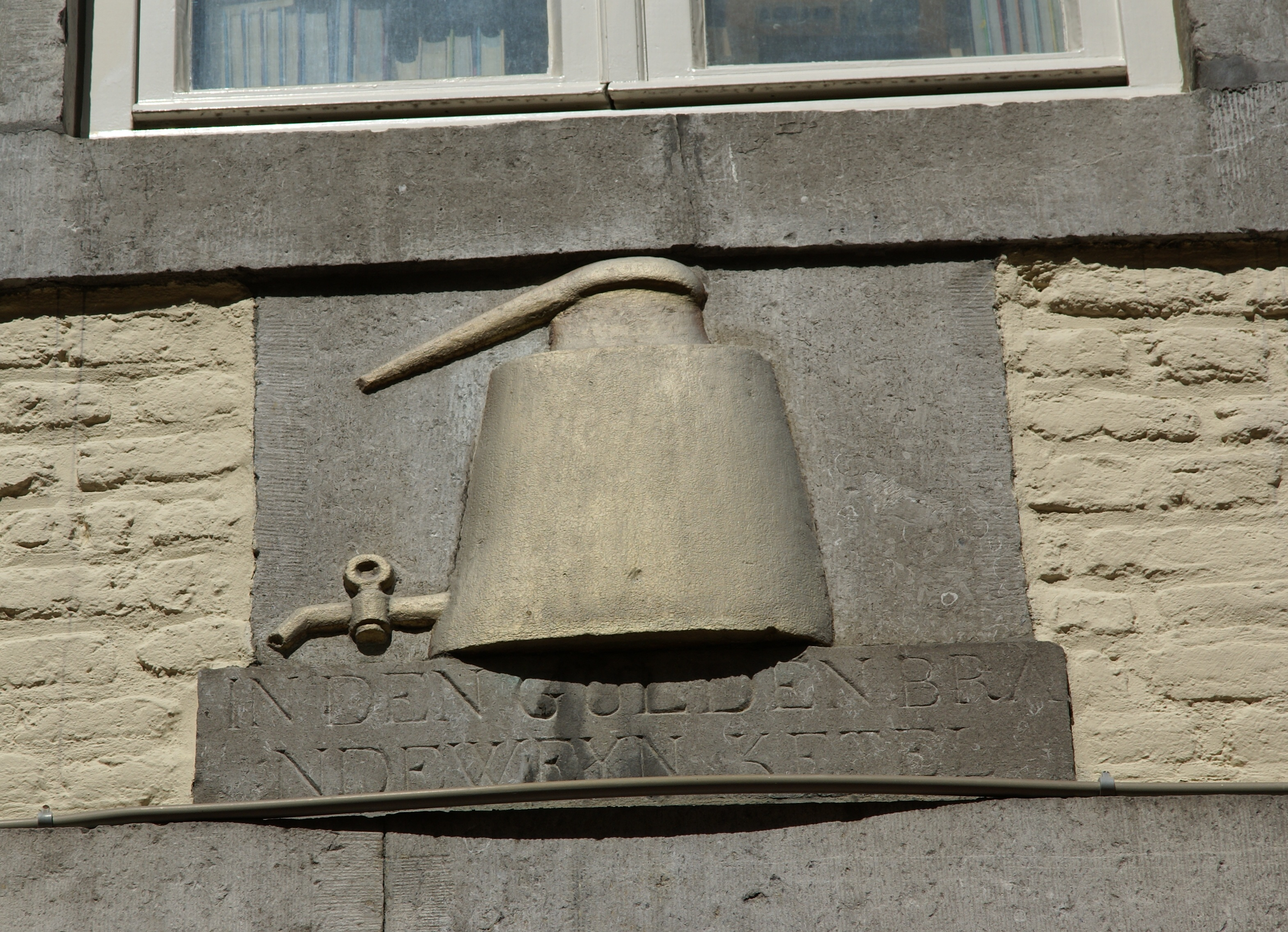 National monument 27139 - Jodenstraat 26, Maastricht, The Netherlands. Gable stone dating from ca. 1750.